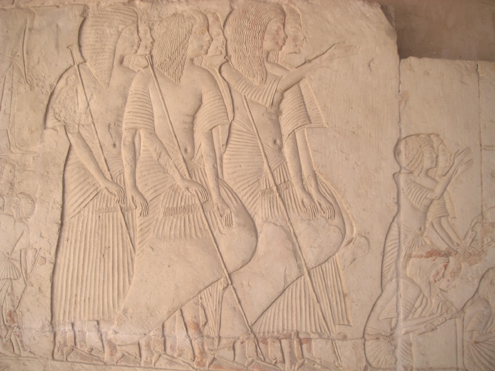 Relief of Horemheb's tomb - 18th dynasty of Egypt - Saqqara